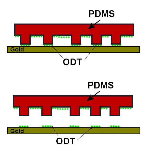 This graphic created by Wesley Allen; created May 5, 2004 [1]